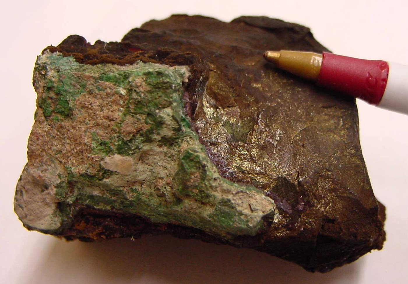 Domeykite. No locality given. Mineral collection of Bringham Young University Department of Geology, Provo, Utah. Photograph by Andrew Silver. BYU index 2-9008, Cu_3As.